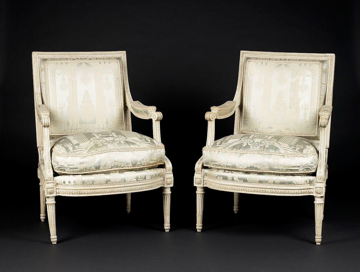 A pair of beechwood chairs created in the Neoclassical style by French furniture maker Georges Jacob.